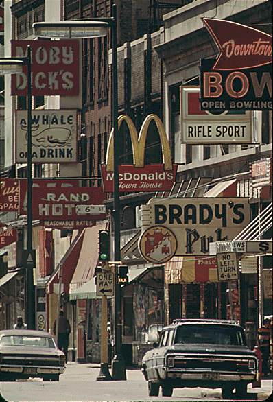 A photograph of downtown Minneapolis's "Block E" on Hennepin Avenue. Demolished in 1988